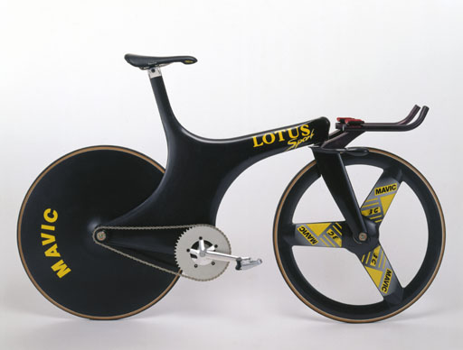 Lotus Type 108 - LotusSport bicycle, 1992. Science Museum Object Number: 1993-76; This is the 2nd of the replicas made by Lotus Engineering of the bicycle on which Chris Boardman won the Gold Medal in the 4km pursuit event at the 1992 Barcelona Olympics.